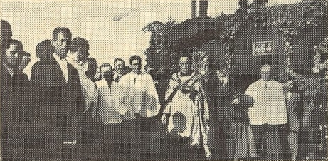 Blessing of the inaugural train at the Mogadouro Train Station, at the opening of the line between Mogadouro and Duas Igrejas-Miranda, in the Sabor Railway, in Portugal, on the 22nd May 1938. This photograph was published on the Gazeta dos Caminhos de Ferro magazine No. 1211, of the 1st June 1938, and scanned by the Hemeroteca Municipal de Lisboa.